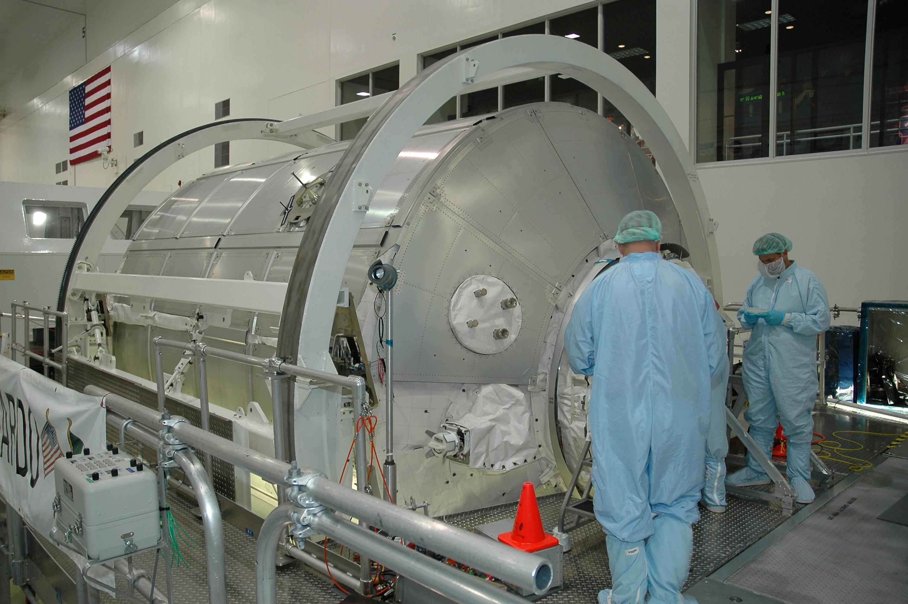 In the Space Station Processing Facility, workers prepare to close the hatch on the multi-purpose logistics module Leonardo.